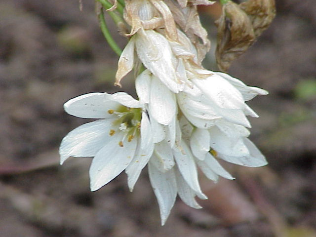 Species: Ornithogalum thyrsoides Family: Liliaceae Image No. 1